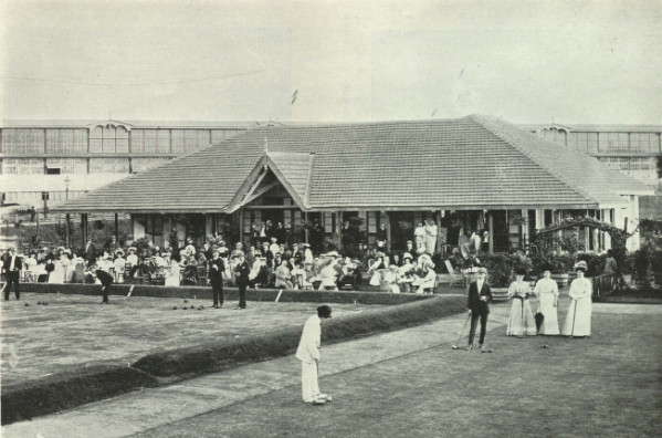 View of the Verandah showing corner of the Bowling Green and Croquet Lawn. Although this Gymkhana has only recently been established it already provides recreation for a large and growing membership.